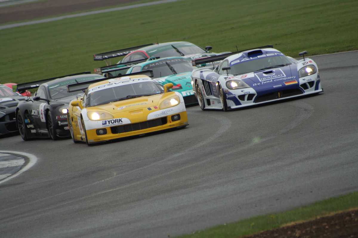 Taken at the FIA GT Championship 7th May 2006 Silverstone